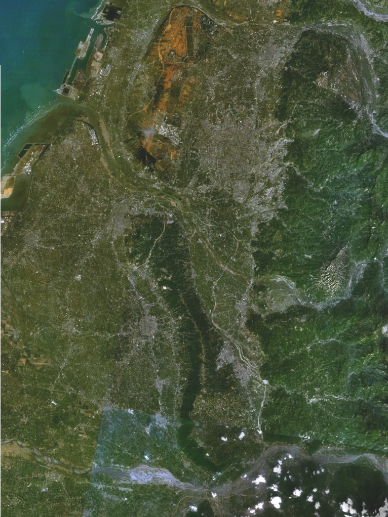 Taichung Basin. It's from a screenshot of NASA World Wind.